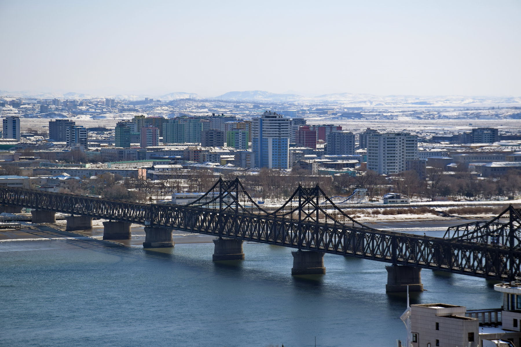 Aerial view of Downtown Sinŭiju, North Korea, from Dandong, China